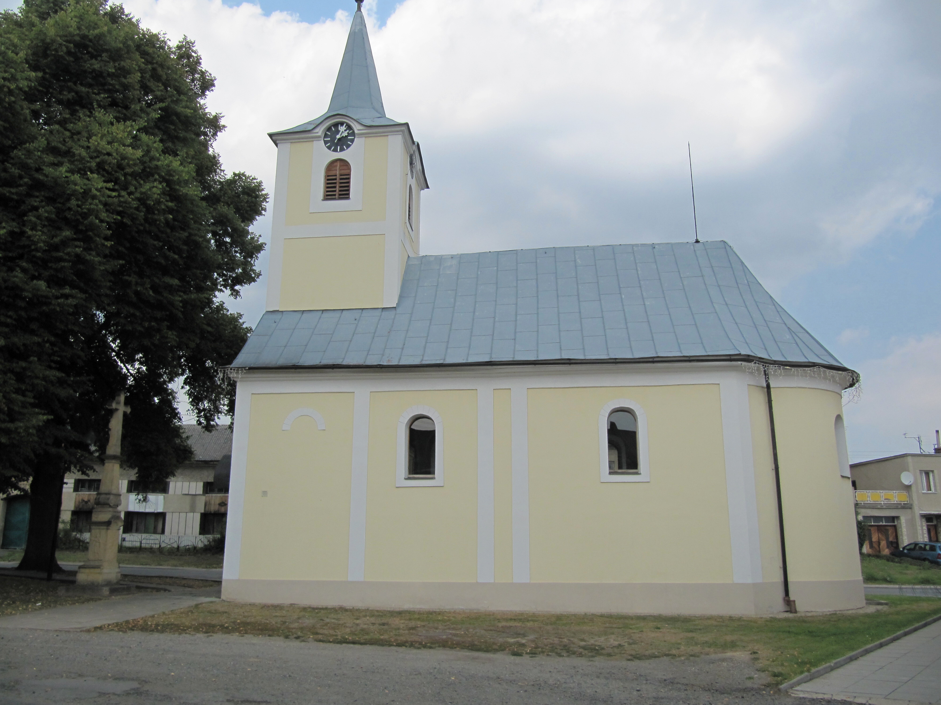 Senička in Olomouc District, Czech Republic. Village green with the Chapel of the Guardian Angels.